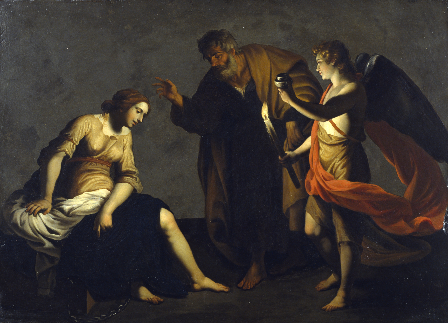 According to an early Christian legend, when a 3rd-century Roman official of Sicily desired the Christian woman Agatha, and she refused to yield to his advances, he had her tortured, and even ordered her breasts cut off. At night in prison, she was visited by a vision of Saint Peter and an angel, and her breasts were miraculously restored. The gray stone of the prison wall was created by letting the slate show through, and it forms a background for the night scene, illuminated by a torch. As opposed to canvas and wood, slate gave a painting almost unlimited durability and the same kind of permanence as sculpture.